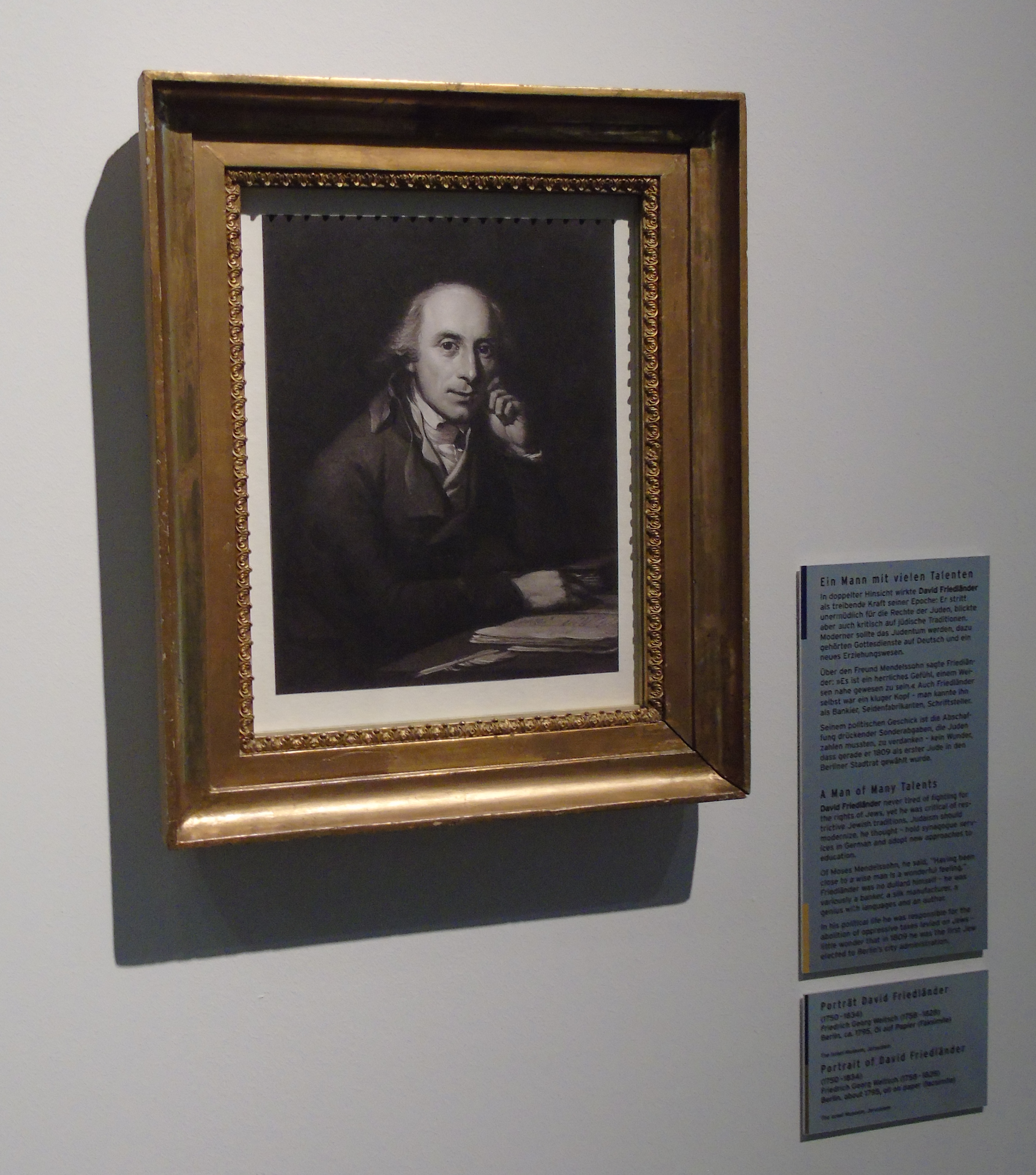 David Friedländer, portrait by Friedrich Georg Weitsch, ca. 1795